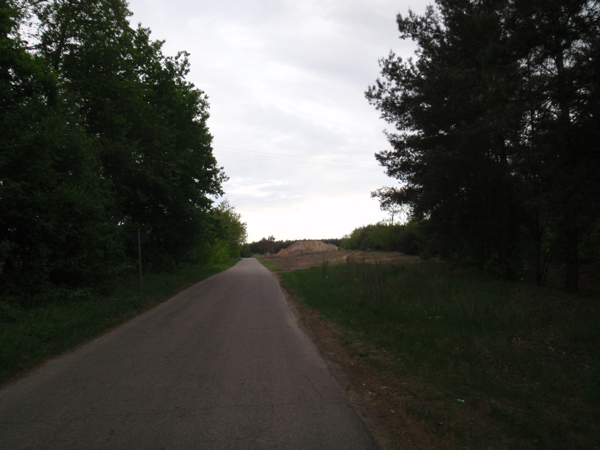 Sandmine in Anielin